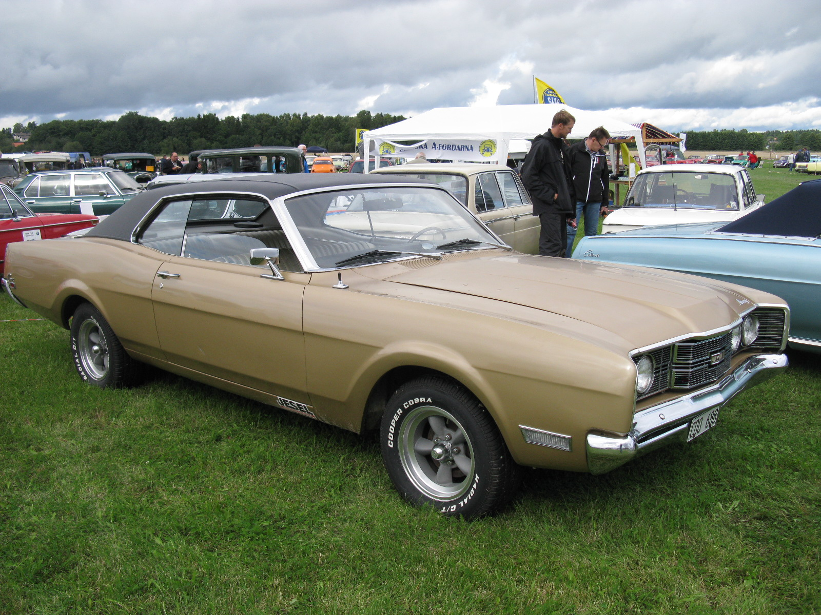 Mercury Cyclone 1969